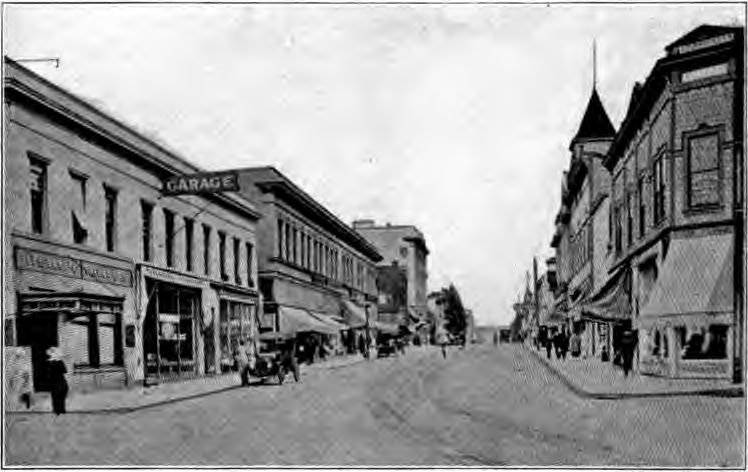 Downtown in Oregon City, Oregon circa 1920